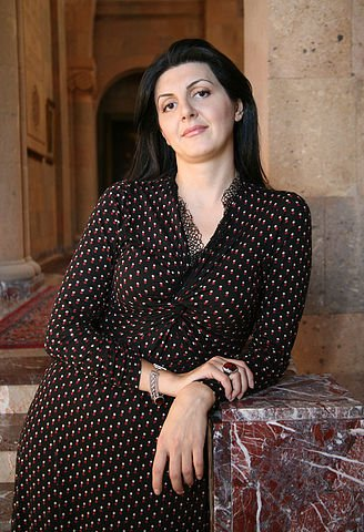 Opera singer Siranush Gasparyan